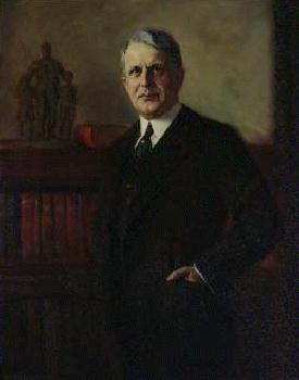 James J. Davis Upload Source - U.S. Department of Labor Biography evrik ( James J. Davis)